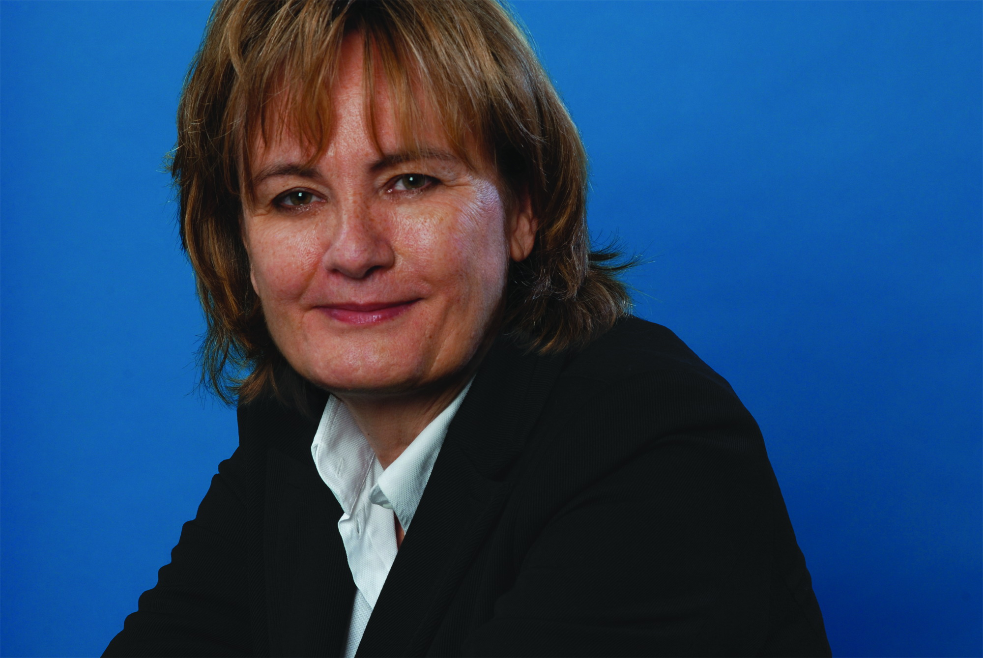 UFV honorary degree recipient for 2013